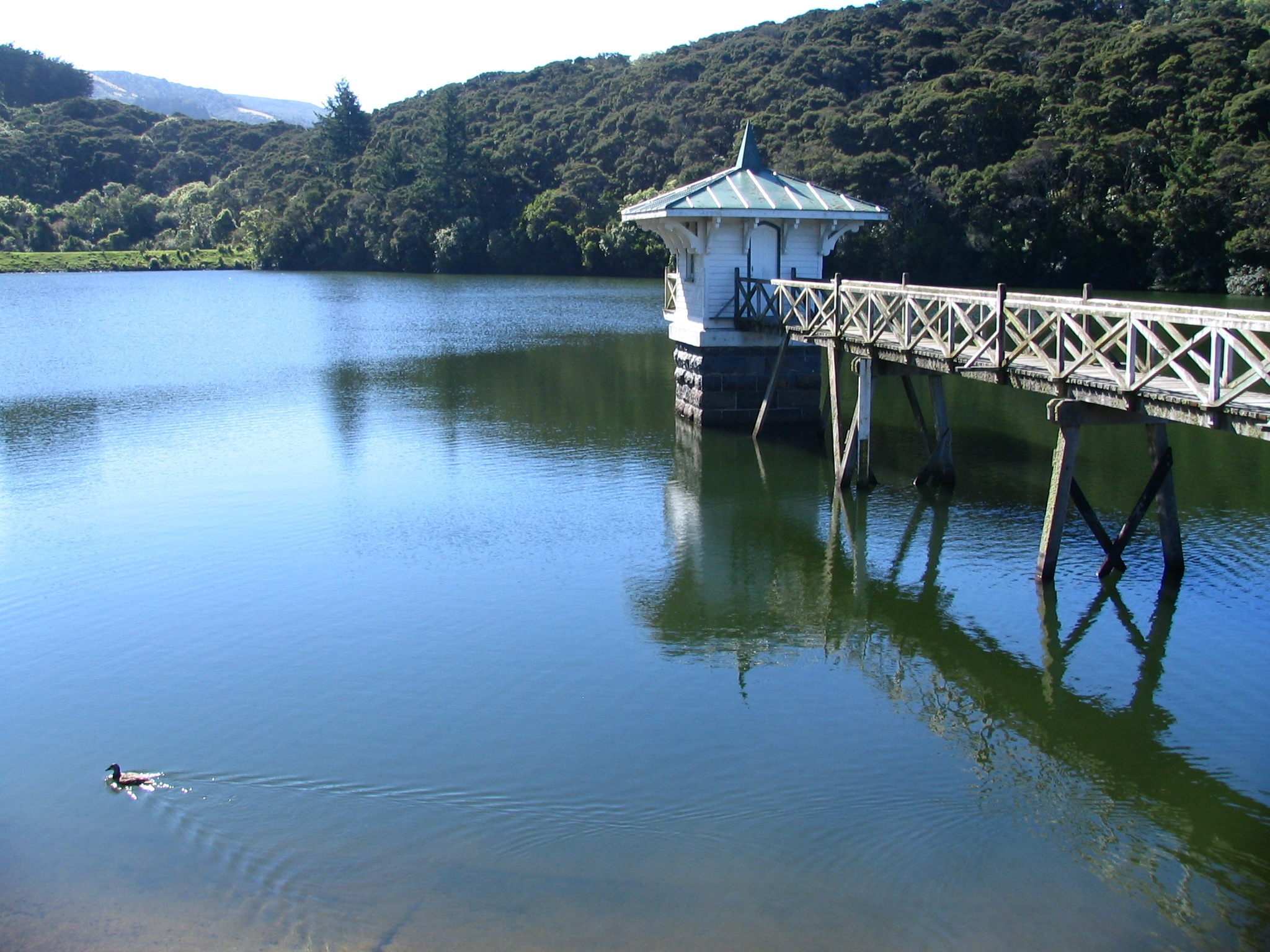 Ross Creek Reservoir, Dunedin, New Zealand, looking north. The valve tower to the right has a New Zealand Historic Places Trust Category I listing.